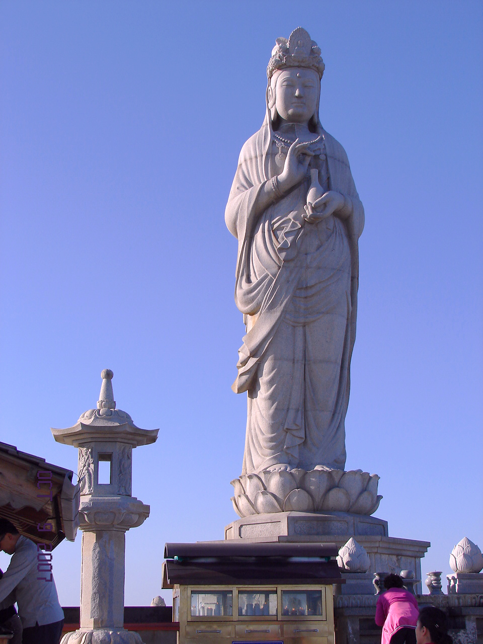 Bodhisttva Haesugwanumsang, standing 53 feet high on a 9 foot high pedestal, on Shinsonbong Peak in Naksansa, nestled into the side of Naksan Mountain along the East Sea, not far from Sokcho South Korea